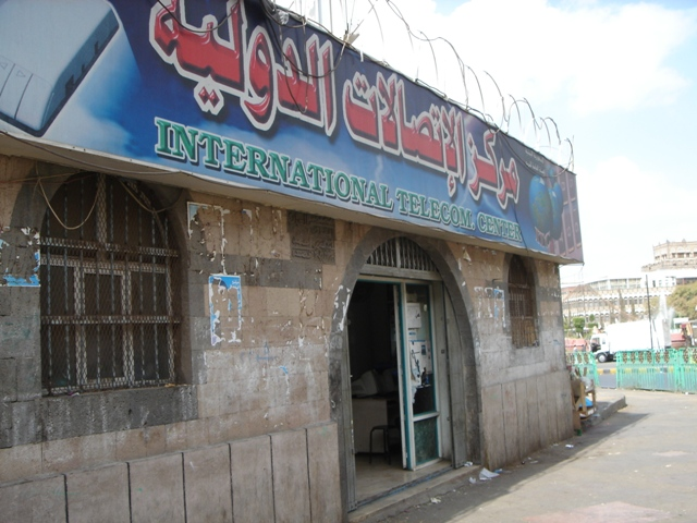 Internet Café in Sana'a, Sana'a.